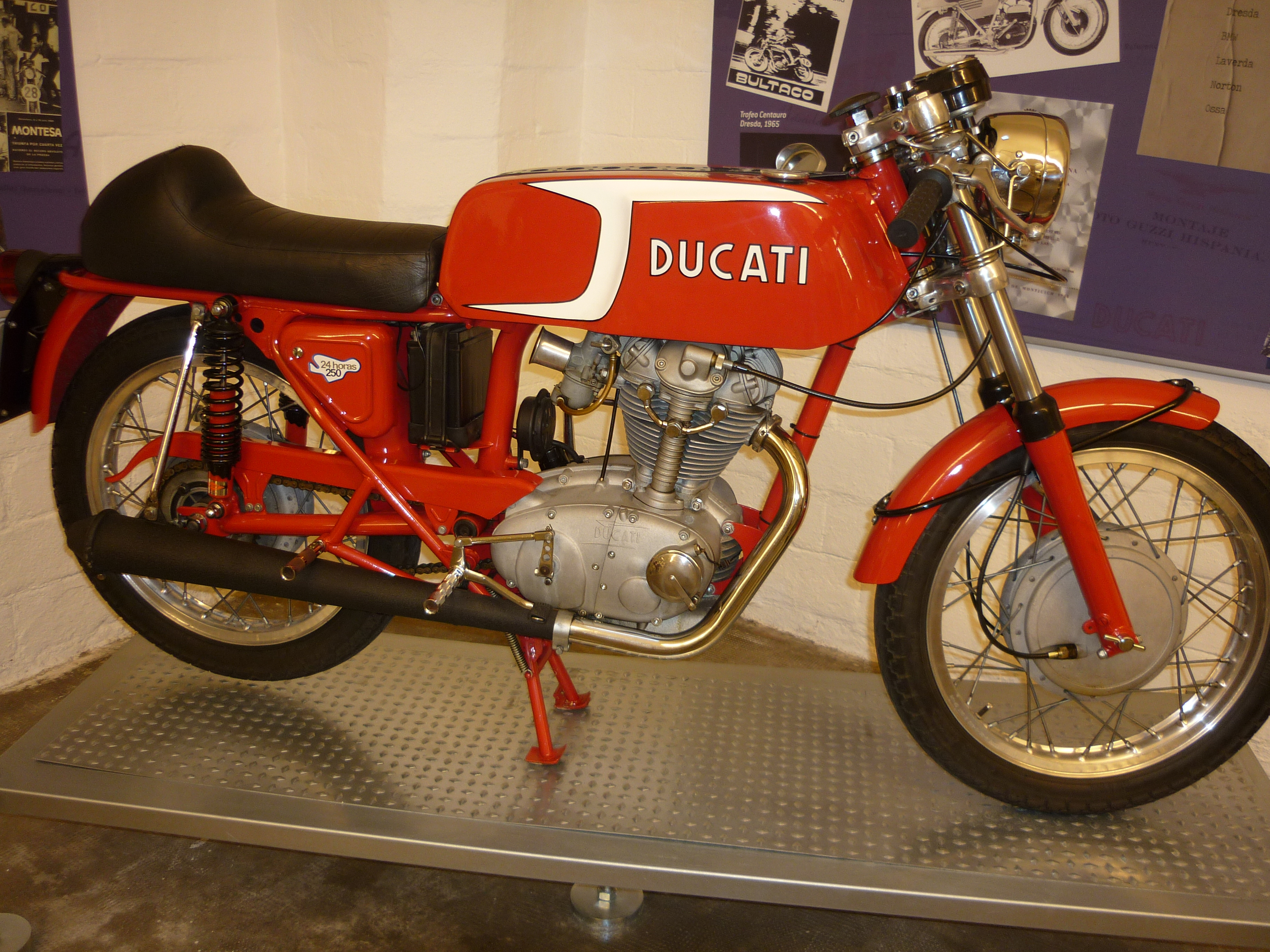 Ducati Mototrans 24H 250cc (1973).Museu de la Moto de Barcelona (Catalonia).